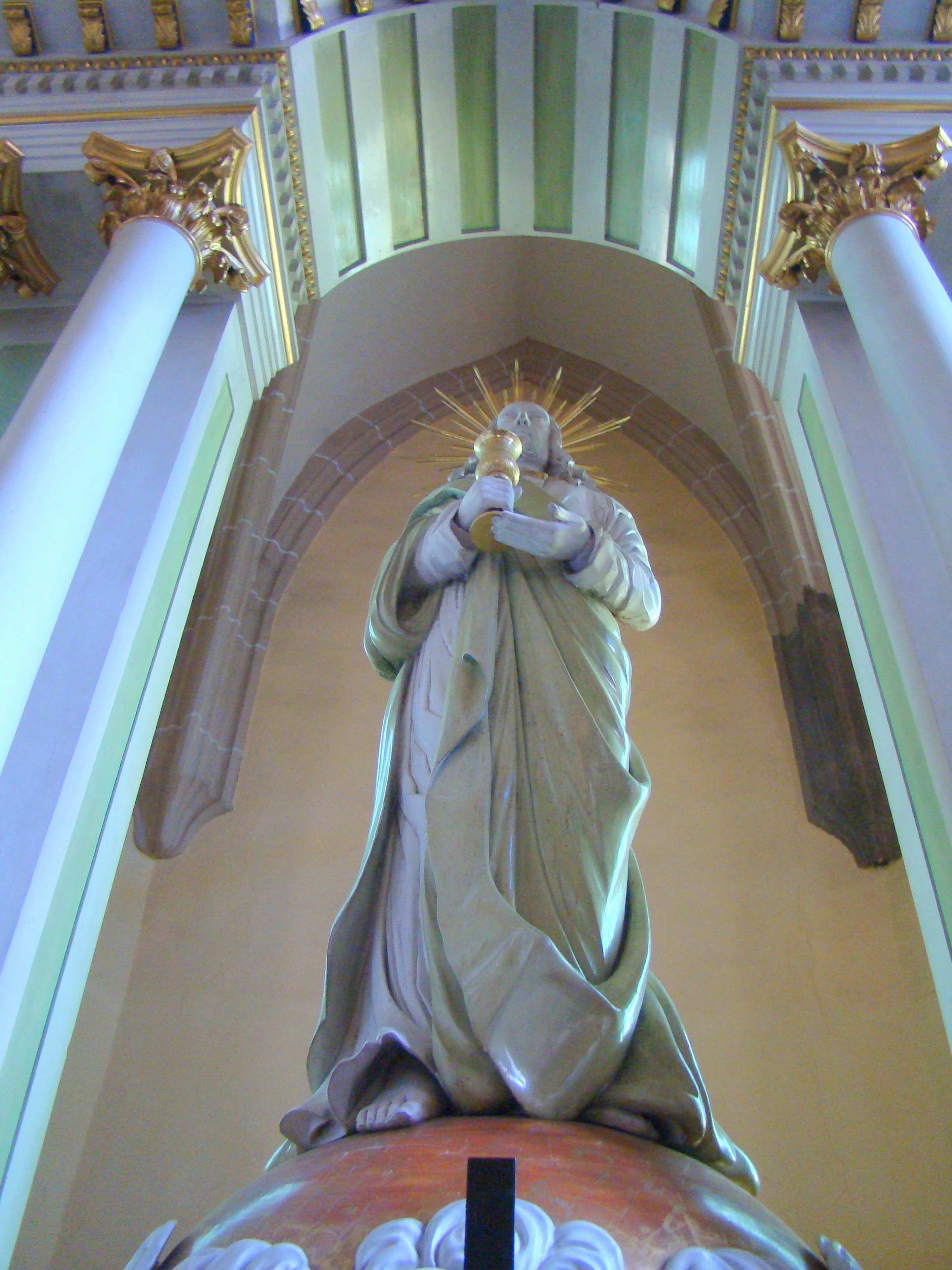 Lutheran church in Reghin, Mureş county, Romania